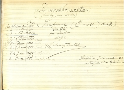 Scan of Original Score Manuscript, Title page, Dvorak Symphony No. 9